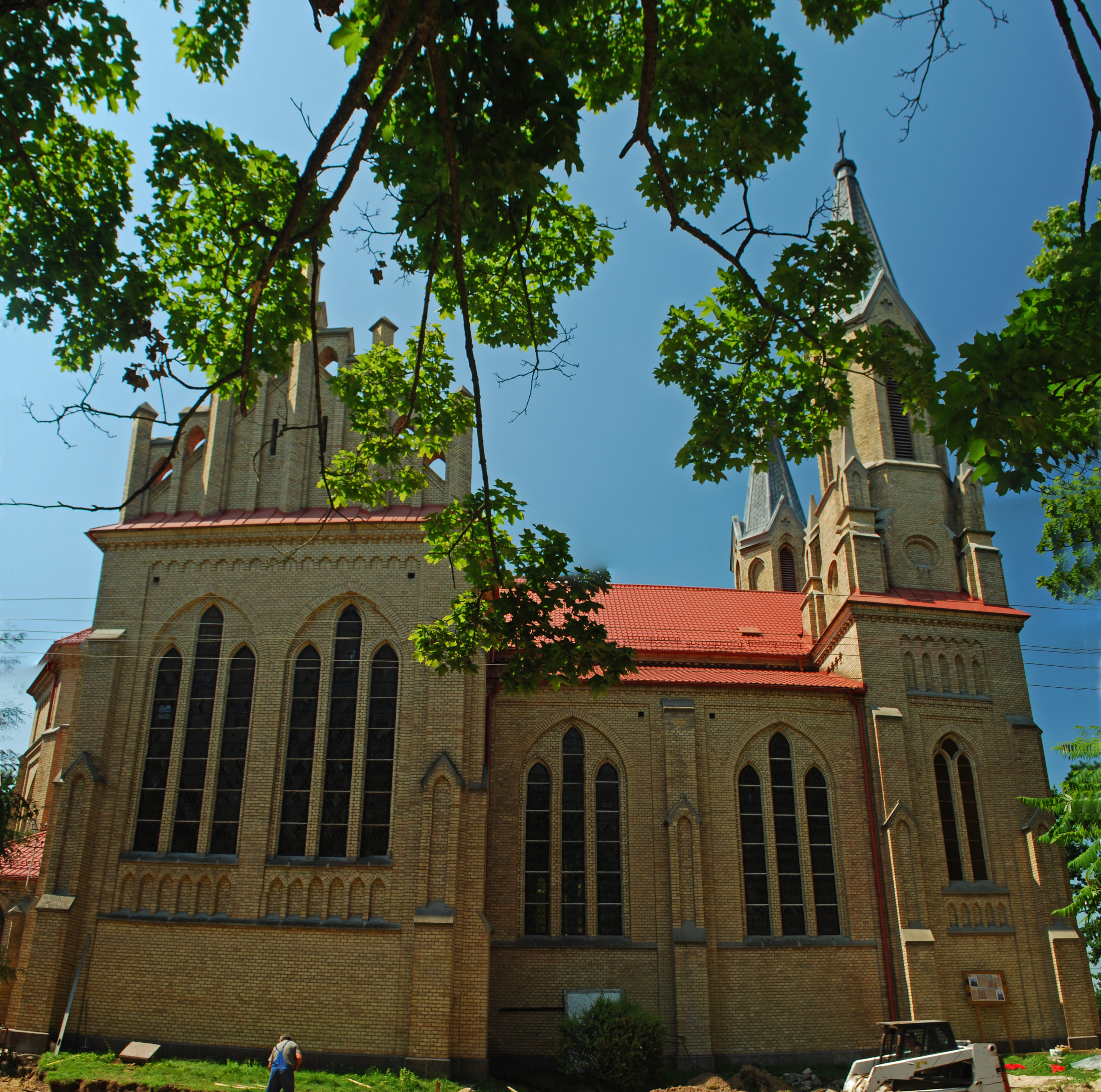 This photo from Podlaskie Voievodeship was taken during Polish Wikiexpedition 2009 set up by Wikimedia Polska Association. The making of this document was supported by Wikimedia Polska. Kościół św. Anny w Krynkach.